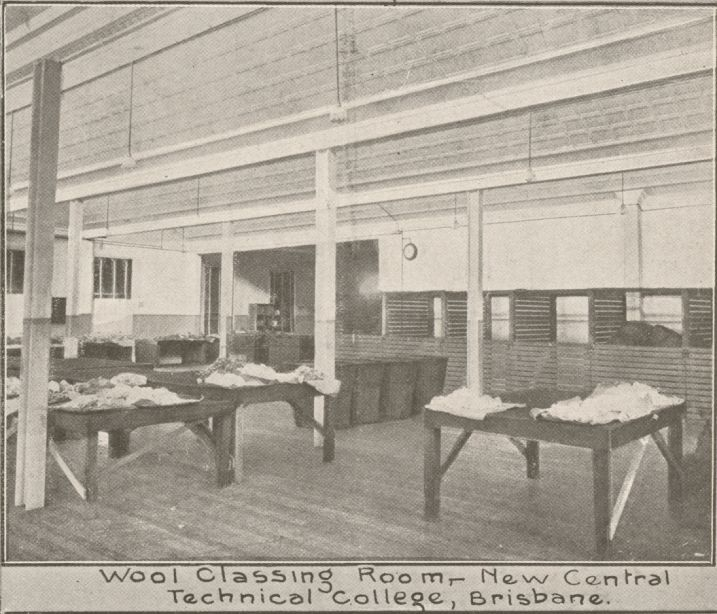 Brisbane Central Technical College - Wool Classing (F block), 1915